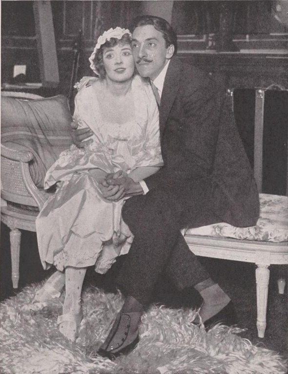 Actors Marjorie Rambeau and Pedro de Cordoba in a scene from the 1915 play Sadie Love